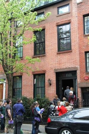 Participants in 2014 House Tour enter a house in the West Village.